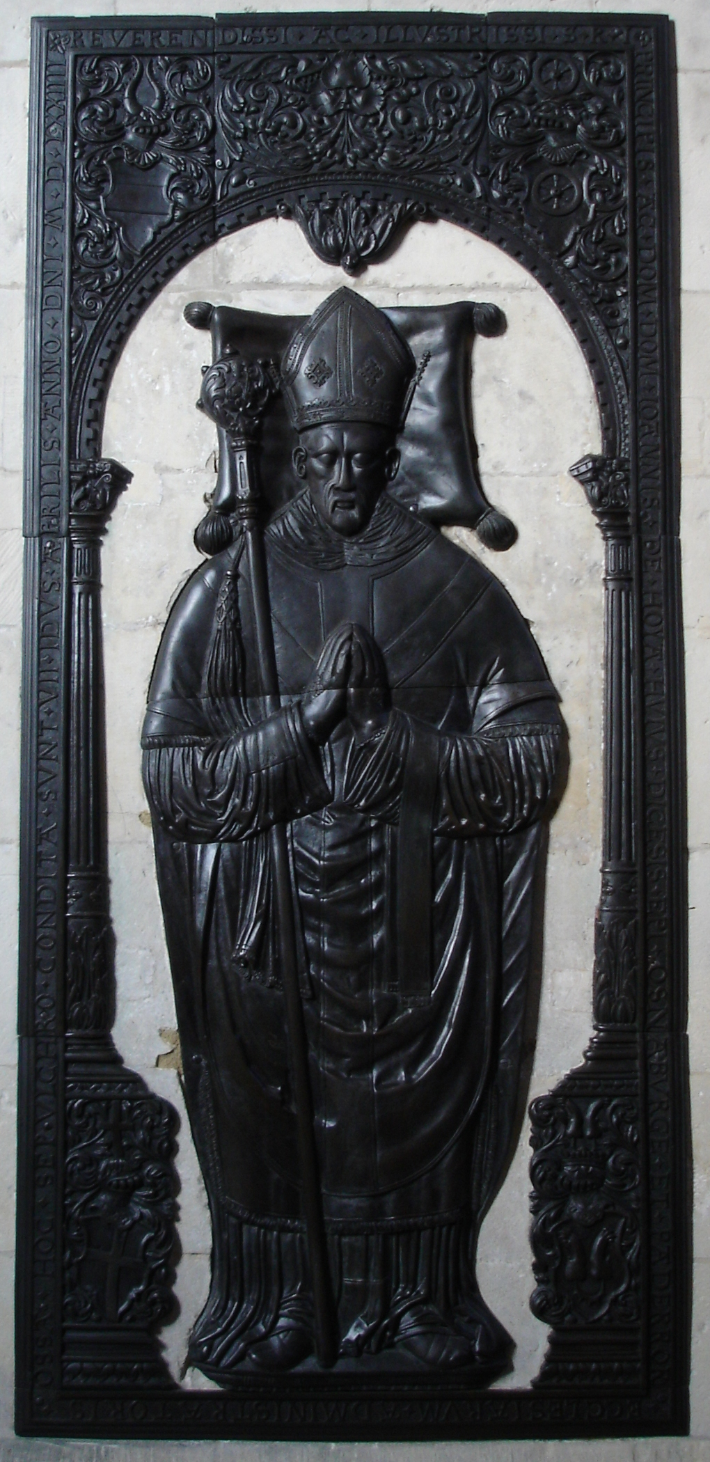 Graveplate of Johann von Hoya in the St.-Pauls-Cathedral in Münster, Westphalia, Germany